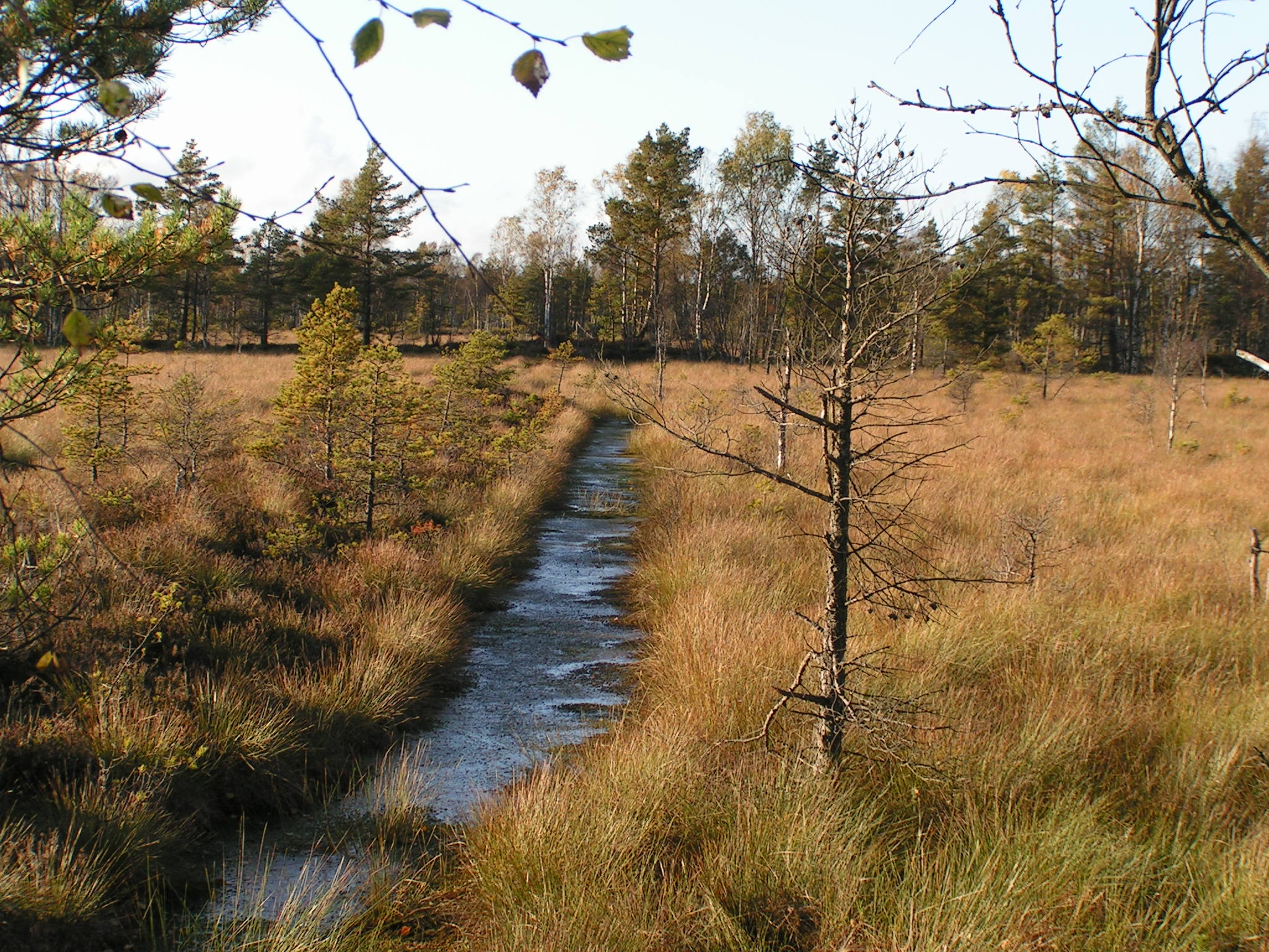 Store Mosse Nationalpark (Sweden)